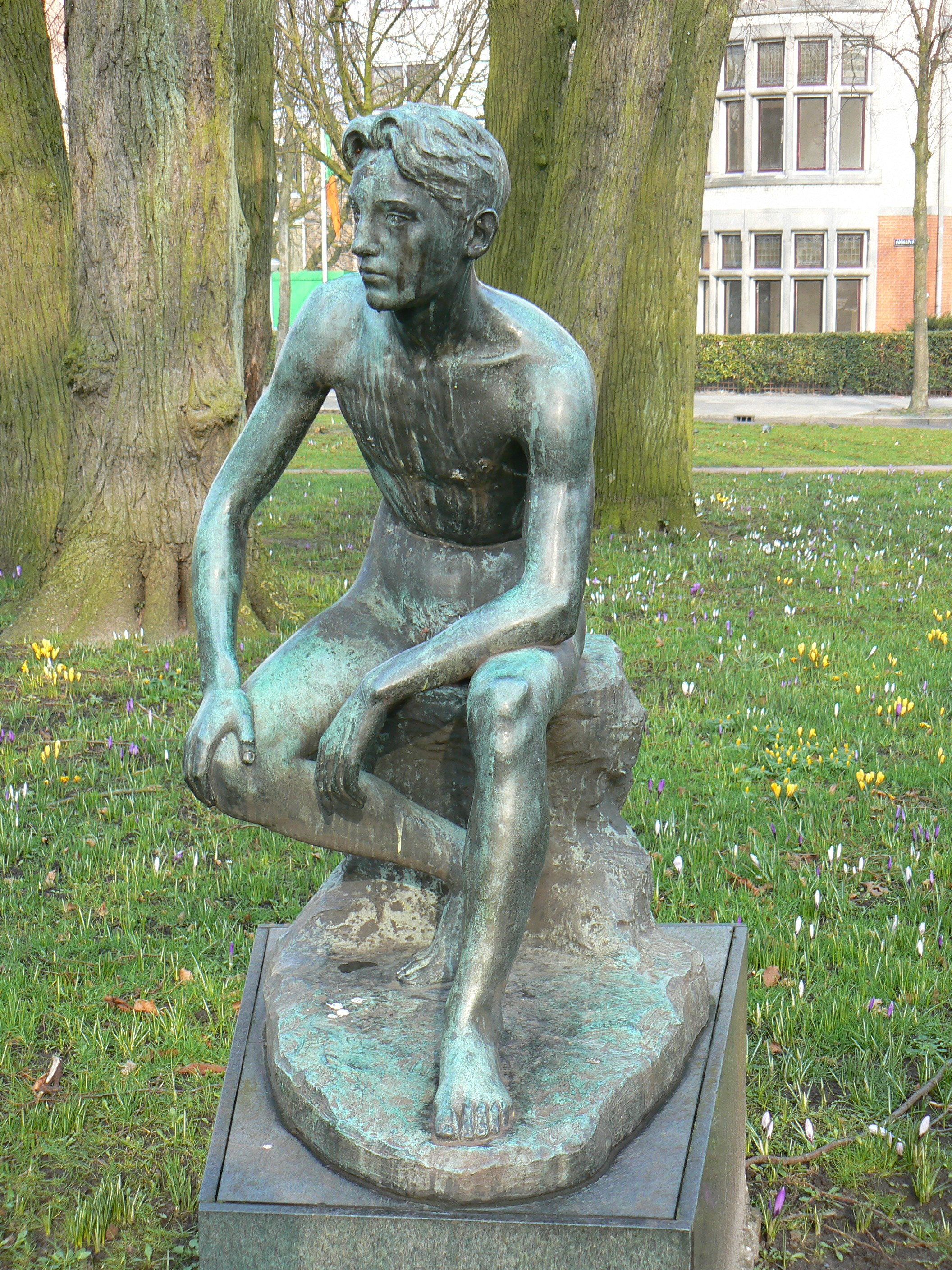 sculpture Zittende Jongeling (1960/1916) by F.E. Jeltsema in Groningen/The Netherlands